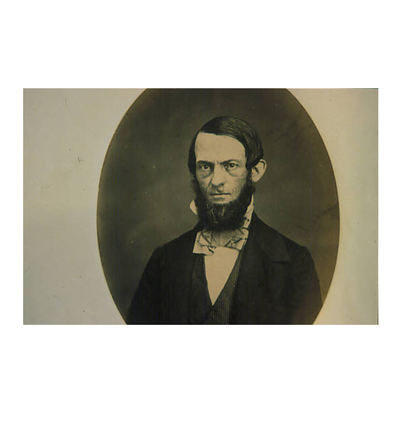 Henry Peck abolitionist professor from Oberlin College in Ohio and ambassador to Haiti